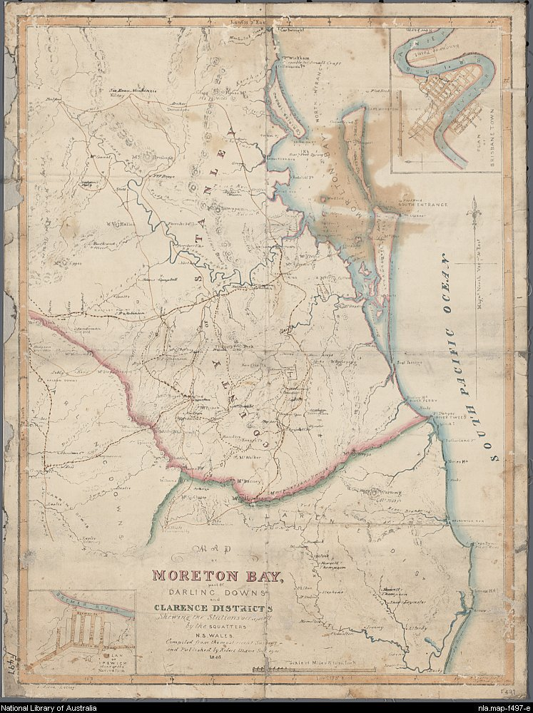 Map of Moreton Bay part of Darling Downs and Clarence districts shewing the stations occupied by the squatters